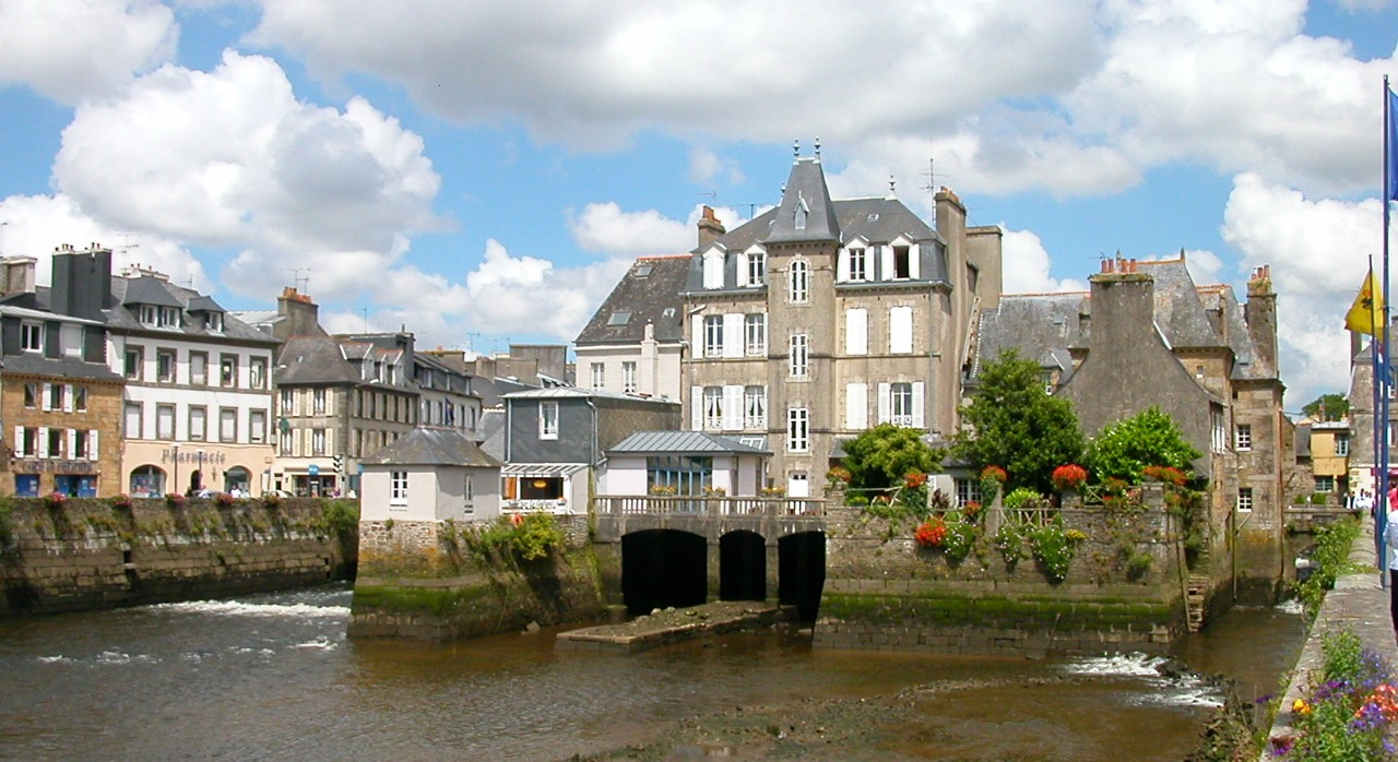 The Rohan inhabited bridge, Landerne, Finistere, Brittany .